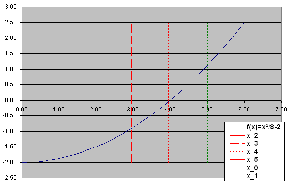 Chart comparing the iterative steps of the Ridders method with the function f(x)=x²/8-2.